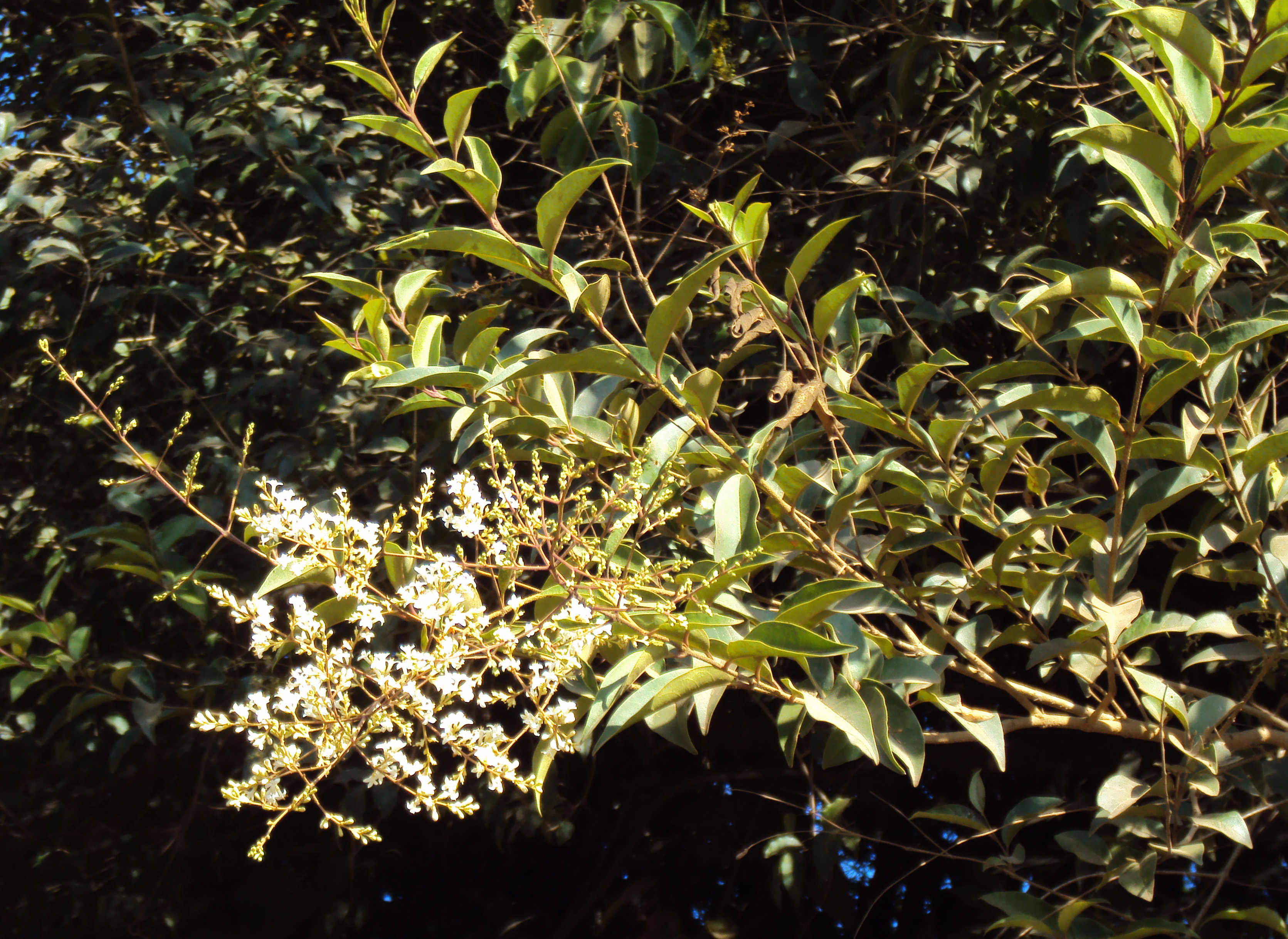 Ligustrum gamblei